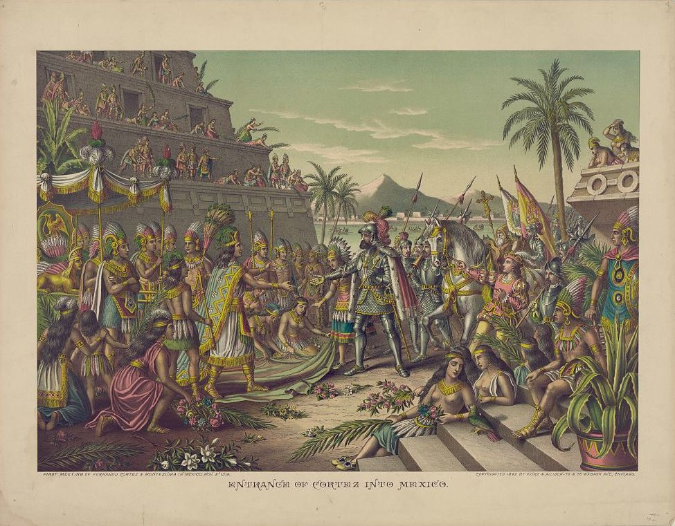 Entrance of Hernan Cortes into Mexico